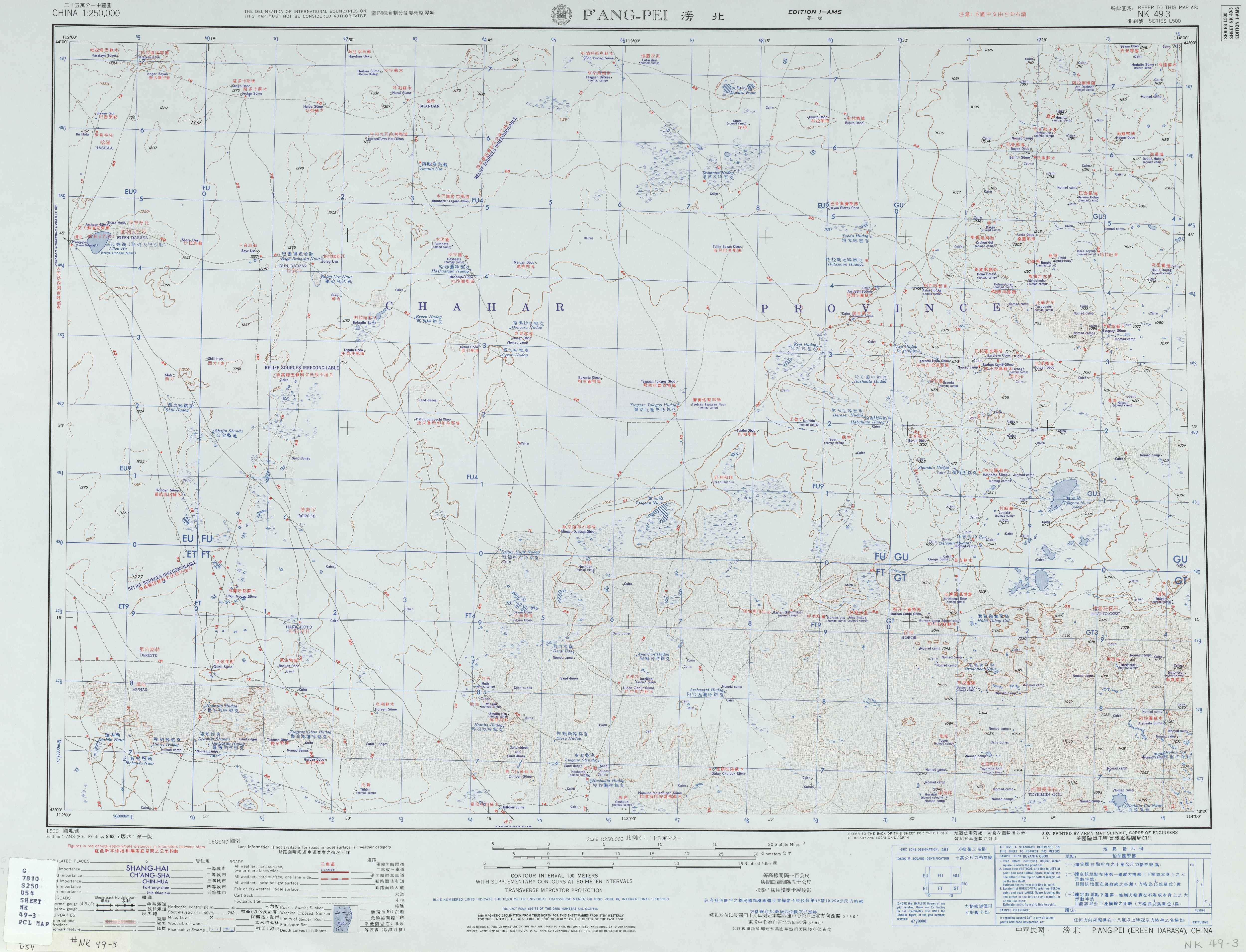 China AMS Topographic Maps